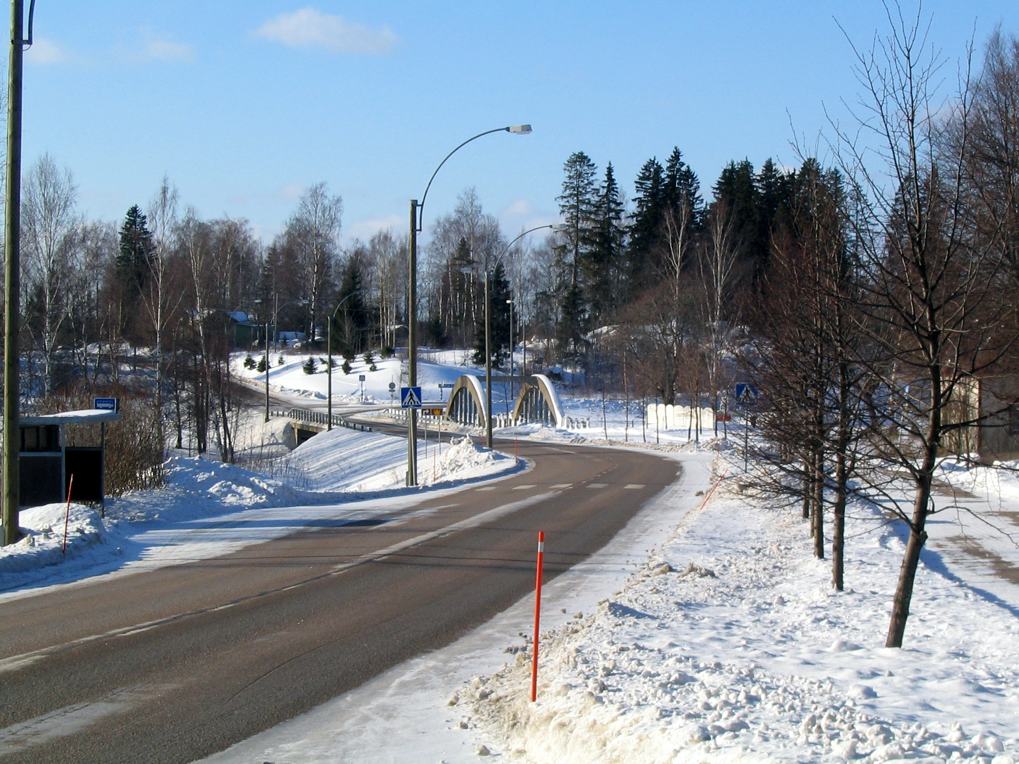 A bridge on connecting road 3561 in Siltakylä/Broby in Pyhtää, Finland